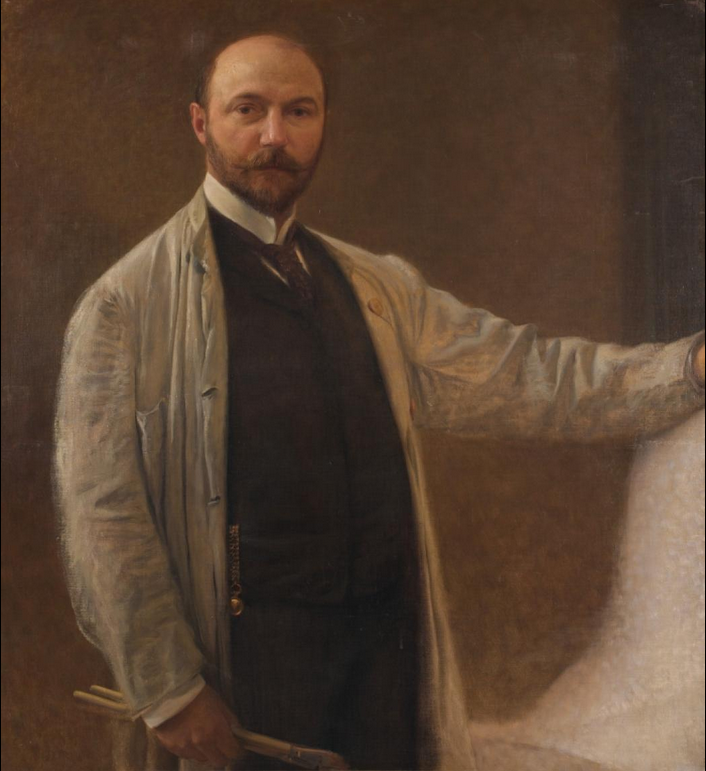 Sefportrait by Franz Matsch, oil on canvas, 120 x 105 cm, Vienna, Belvedere.